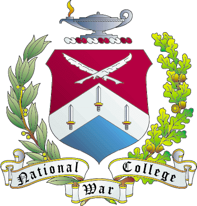 National War College emblem from [1]